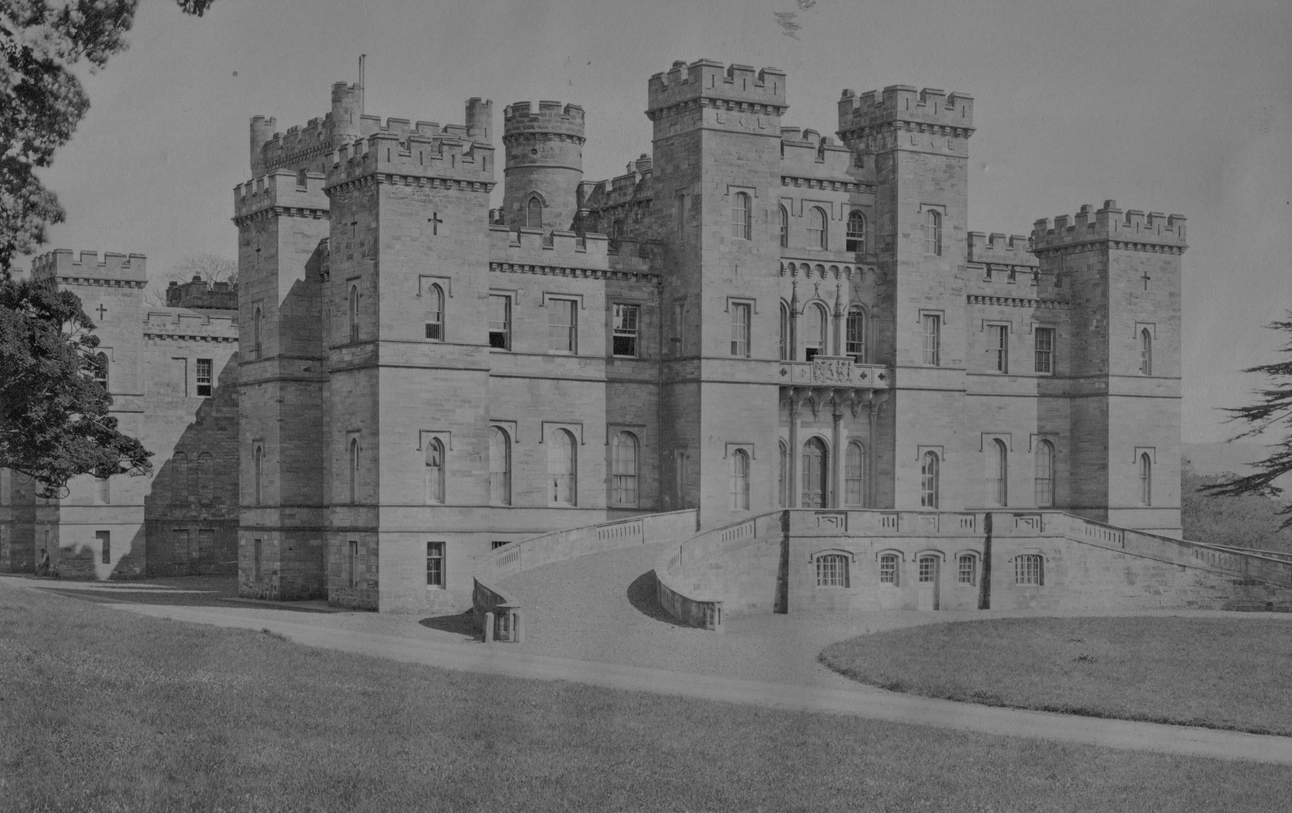 Loudoun Castle, Galston, East Ayrshire, Scotland; home of the Campbell and Hastings - Earls of Loudoun, etc.